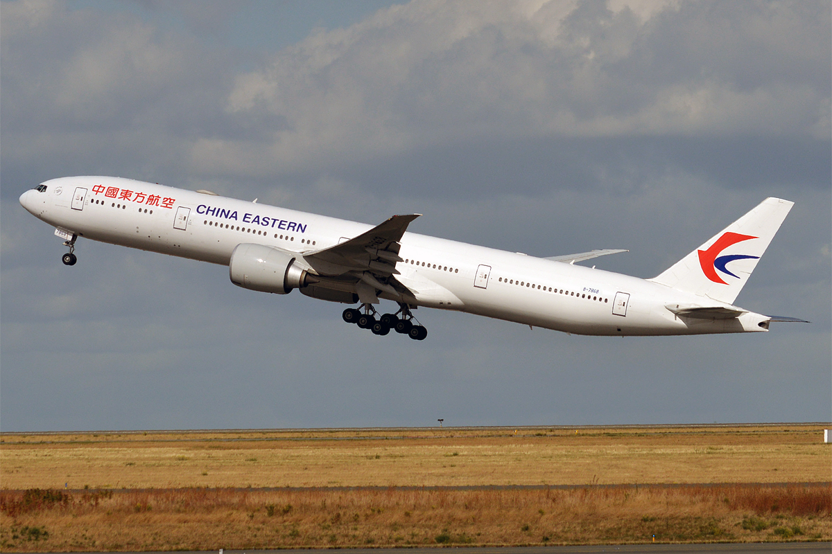 China Eastern Airlines, B-7868, Boeing 777-39P ER